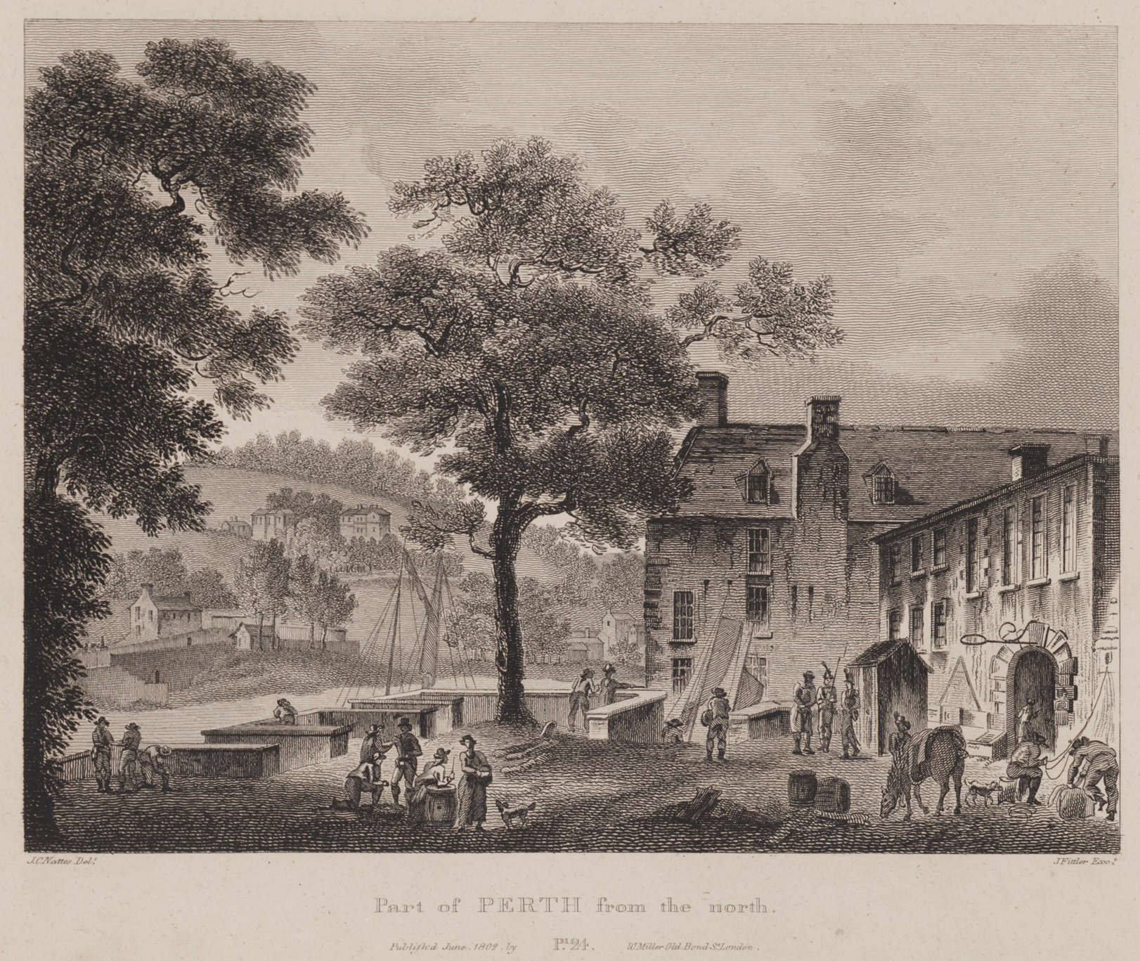 Plate XXIV/b - John Claude Nattes made drawings of suitable scenes on the spot; etchings are by James Fittler.